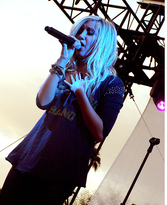 Ashley Tisdale performing at the opening for the first Microsoft Store in Scottsdale, Arizona.